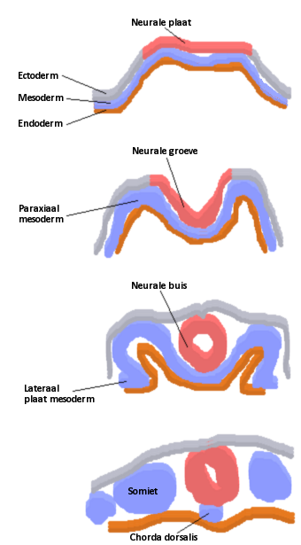 A diagram of the different stages of neurulation (in Dutch).